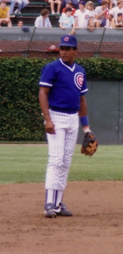 Manny Trillo in Cubs uniform